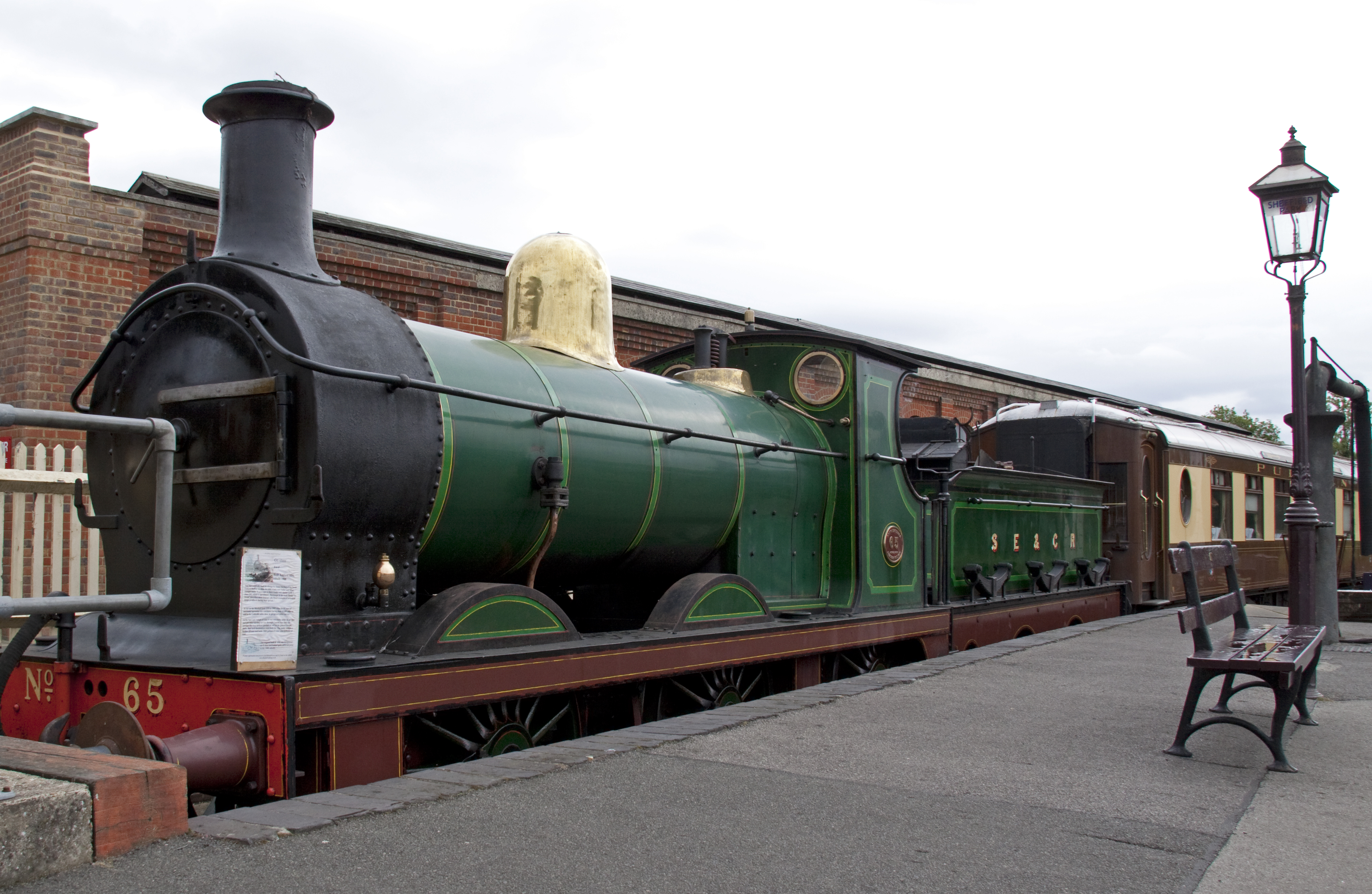 South Eastern and Chatham Railway 65